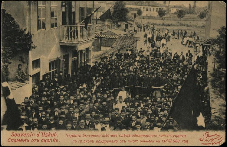 Ottoman Postcard of Huriet in Skopie. Bulgarian manifestation.